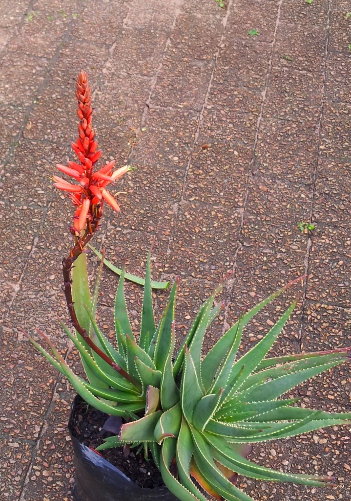 Aloe succotrina plant for sale - Kirstenbosch